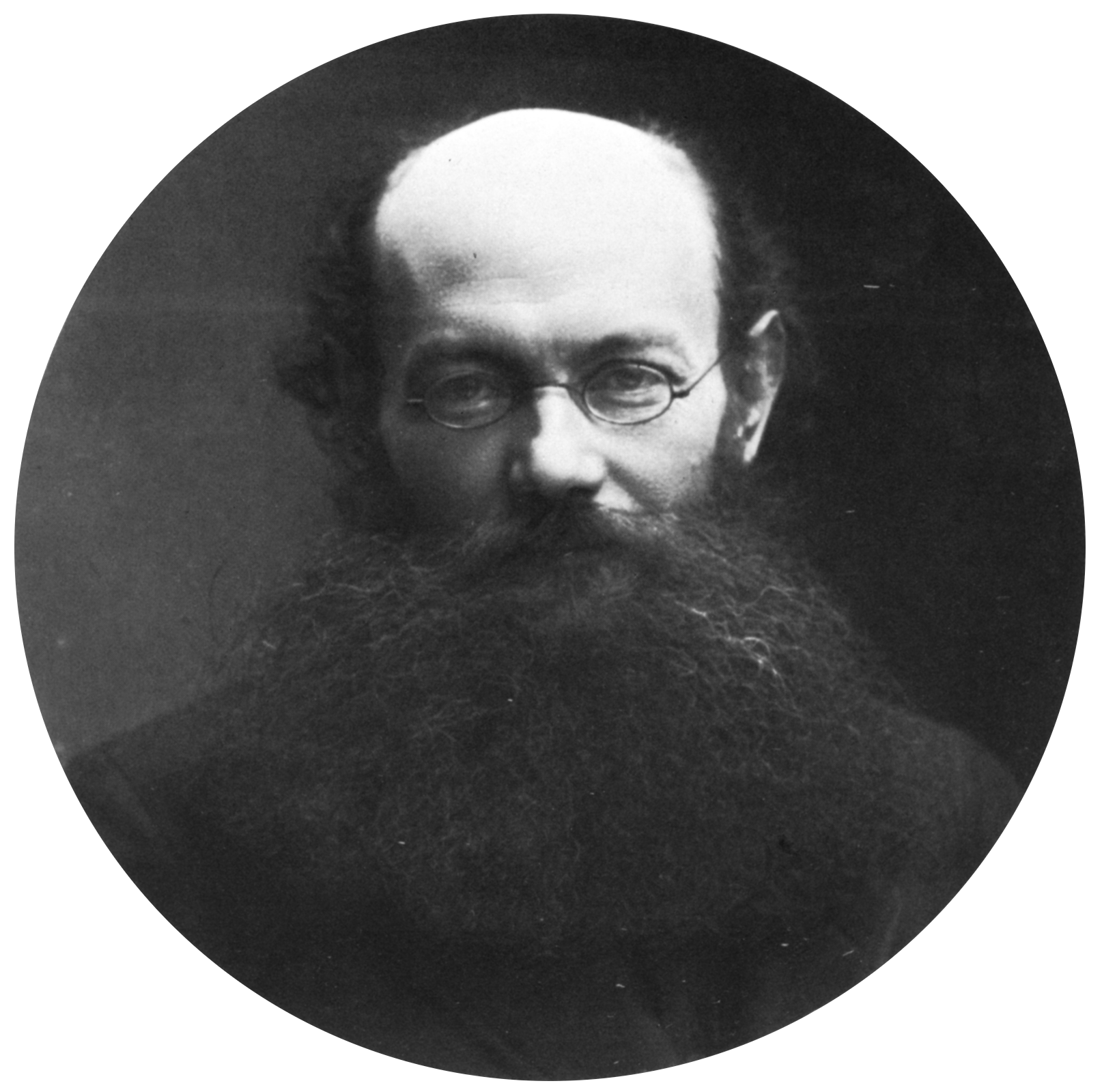 Kropotkin's photo by Nadar